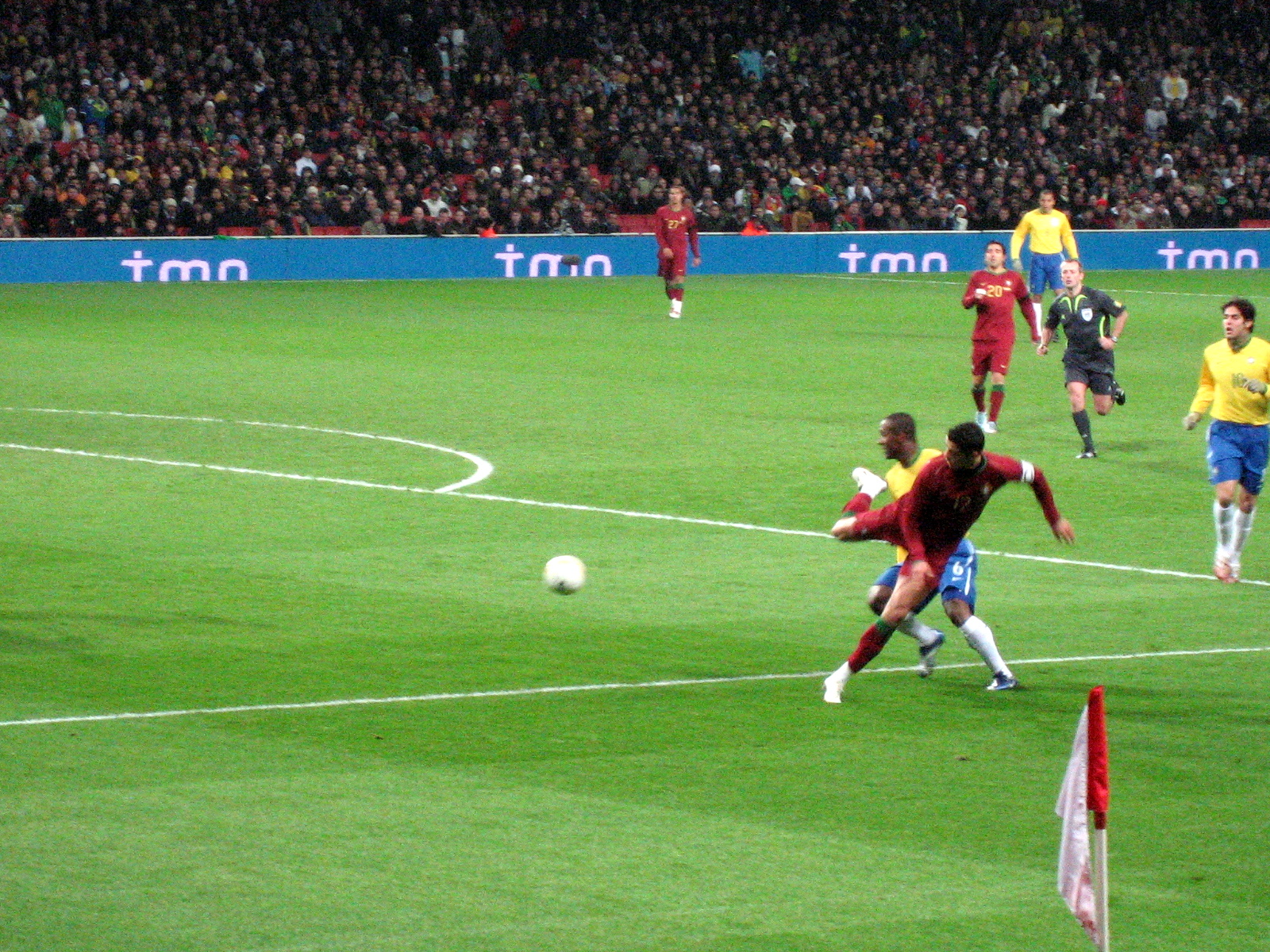 Brazil vs Portugal, Emirates Stadium, February 6, 2007.